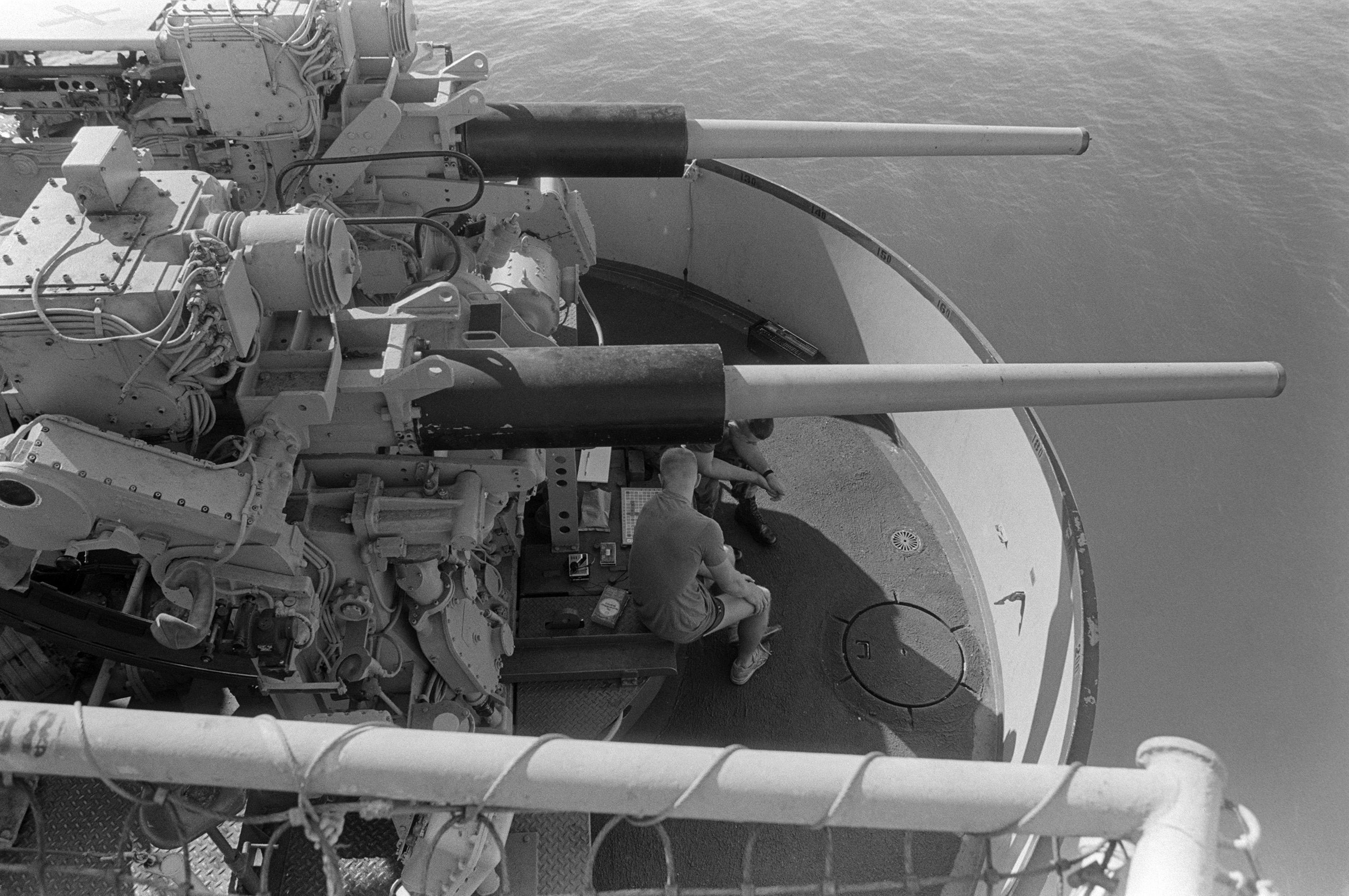 U.S. Marines aboard the amphibious assault ship USS Okinawa (LPH-3) play Scrabble under the aft Mark 33 3-inch/50-caliber gun mount as the ship cruises the Persian Gulf.